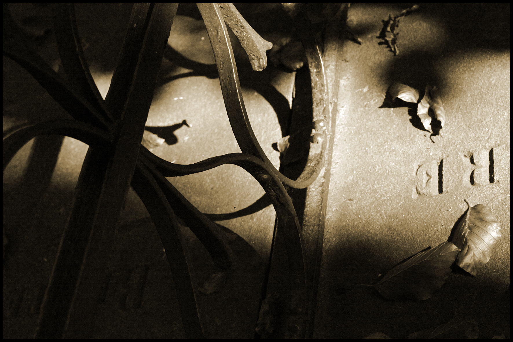 Leiden, Netherlands - Cemetery Groenesteeg - Detail.